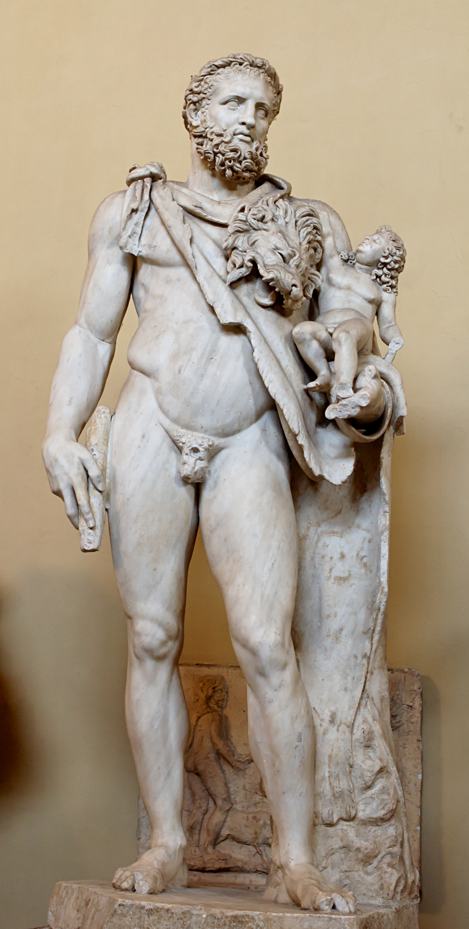 Herakles holding baby Telephos in his arms. Marble, Roman copy after a Greek original of the 4th century BC. Found in the 16th century in Campo de’ Fiori in Rome.